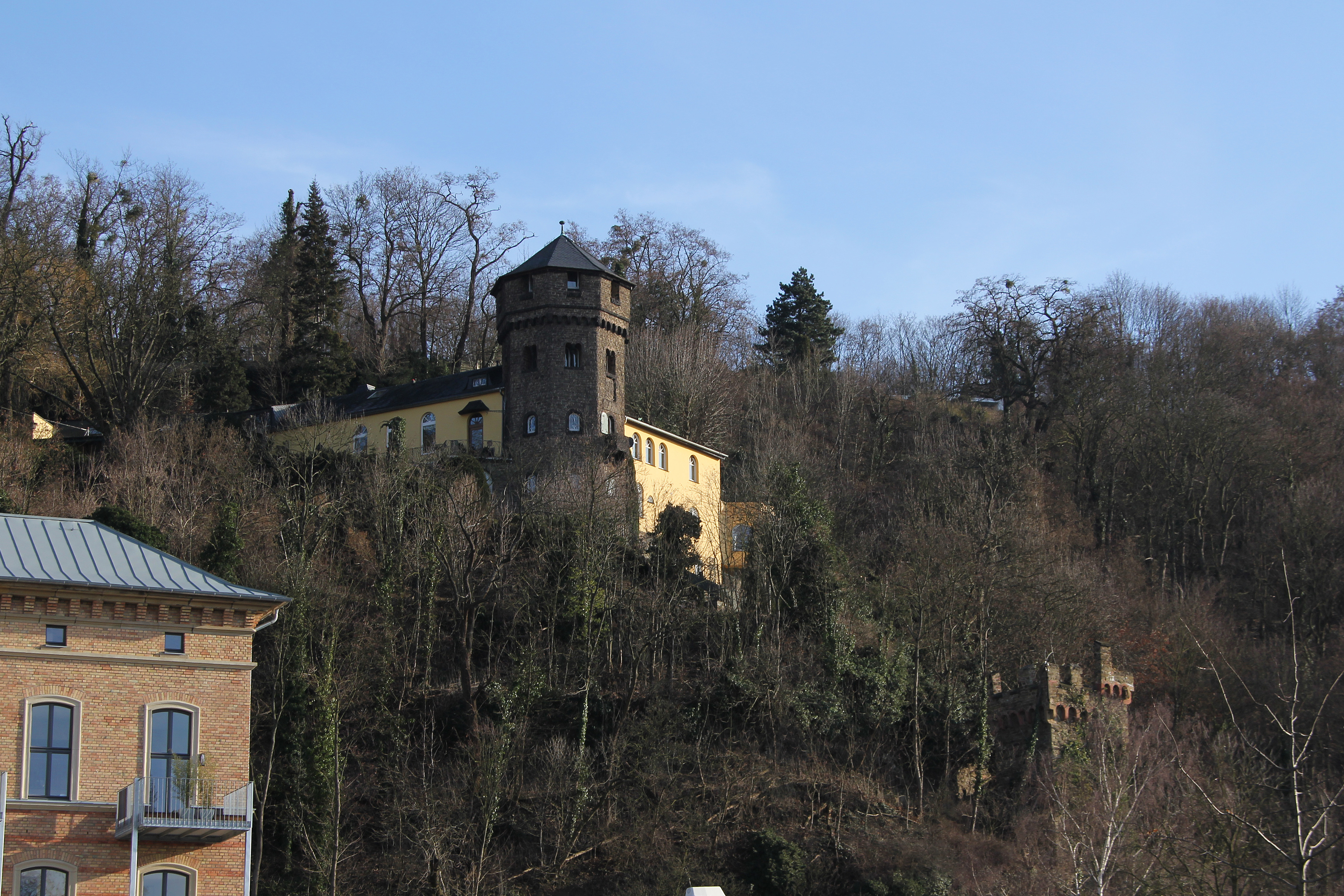 Luisenturm in Koblenz-Ehrenbreitstein